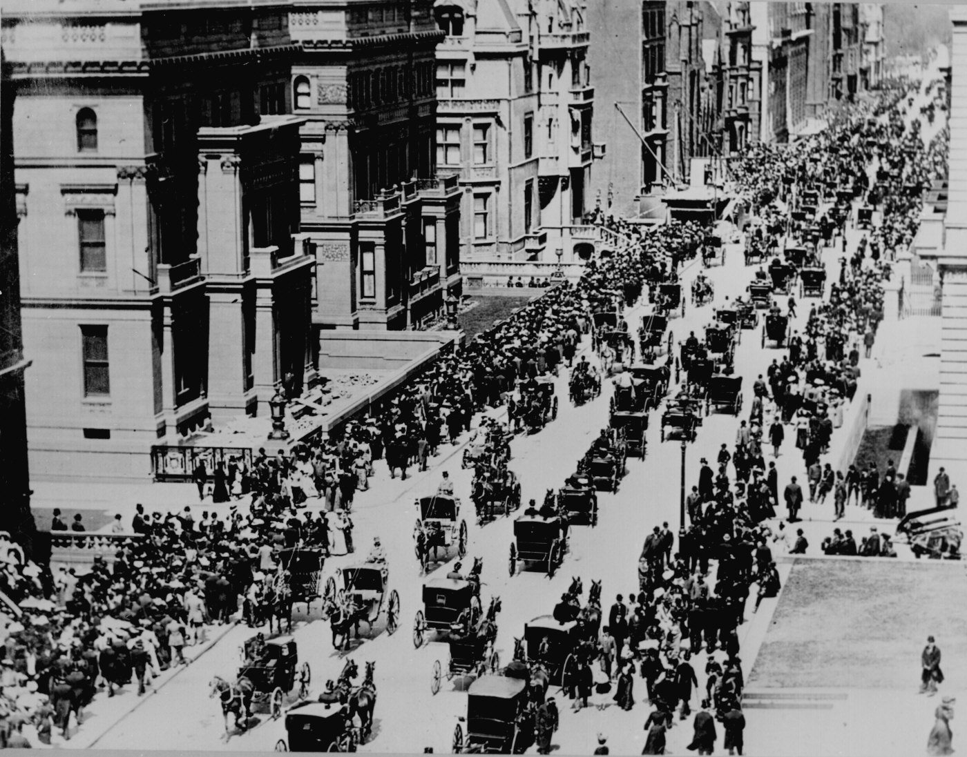 Fifth Avenue in New York City on Easter Sunday in 1900